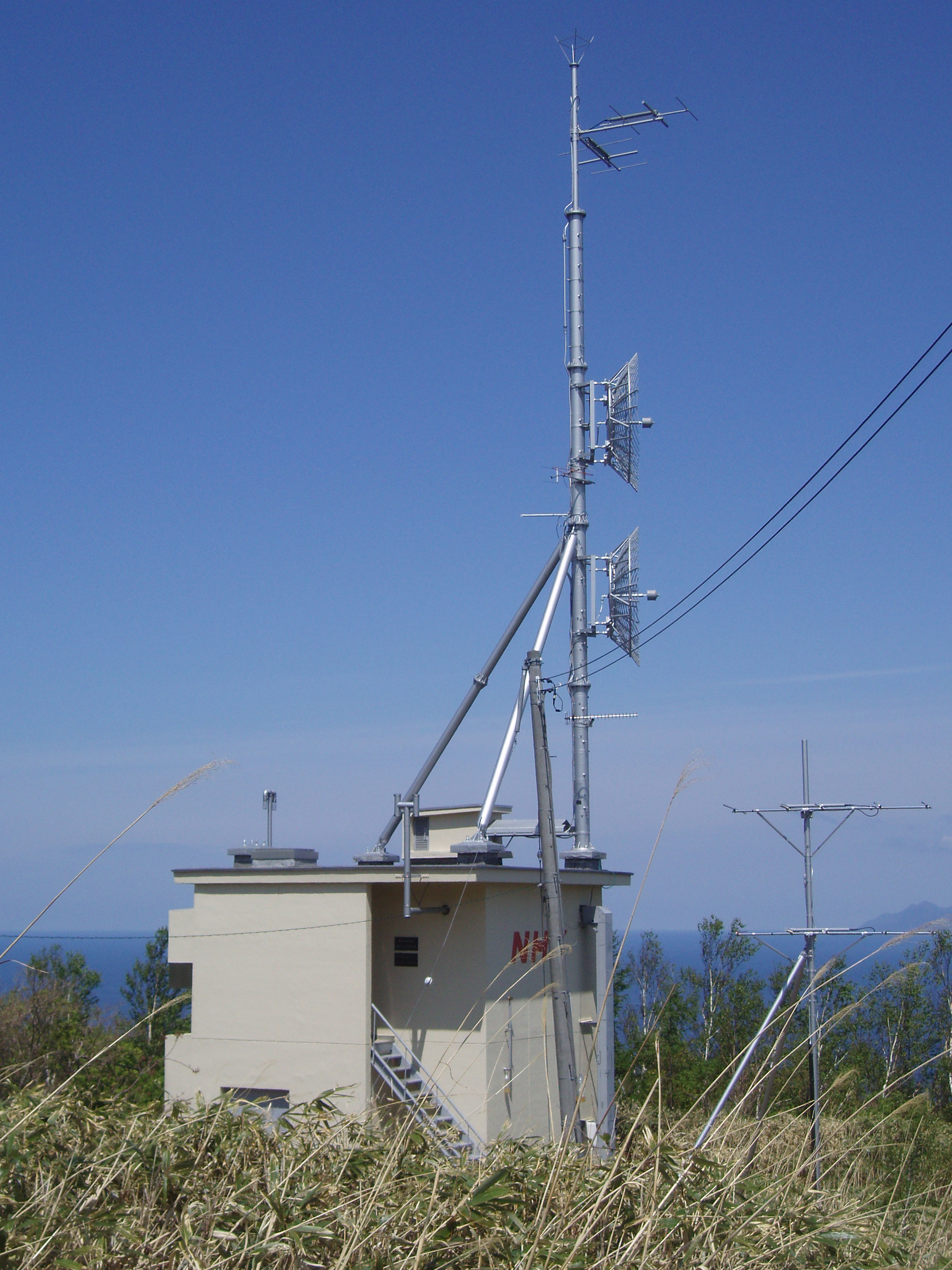 NHK transmitter at the Iwanai Broadcasting Relay Station